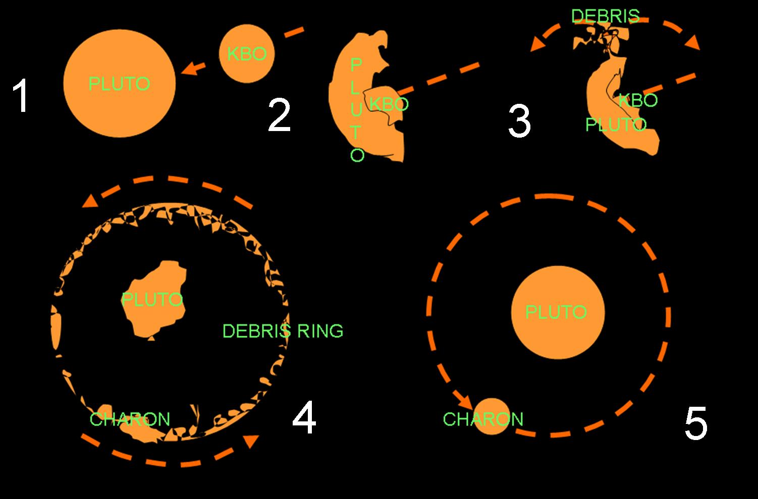 Original caption: This is the process of the Creation of Pluto's Moons (4th Edition). Number 1 shows a KBO nearing Pluto. Number 2 shows a KBO impacting Pluto. Number 3 shows a dust ring forming around Pluto. Number 4 shows the debris clumping together to form Charon. Number 5 shows Pluto and Charon becoming a spherical body and Charon orbiting Pluto. The sequence of images obviously contradicts to w: conservation of angular momentum, assuming that all phases were shot from the same direction: phase 1 shows a system with clockwise angular momentum (relatively to the centre of mass) while phases starting from 3 show a counter-clockwise rotation.